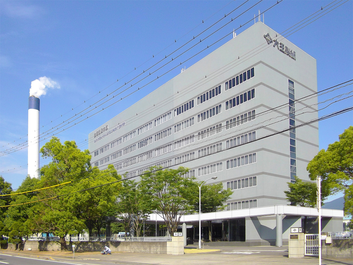 Daio Paper Corporation Research and Development Center in Shikokuchuo city, Ehime prefecture, Japan.